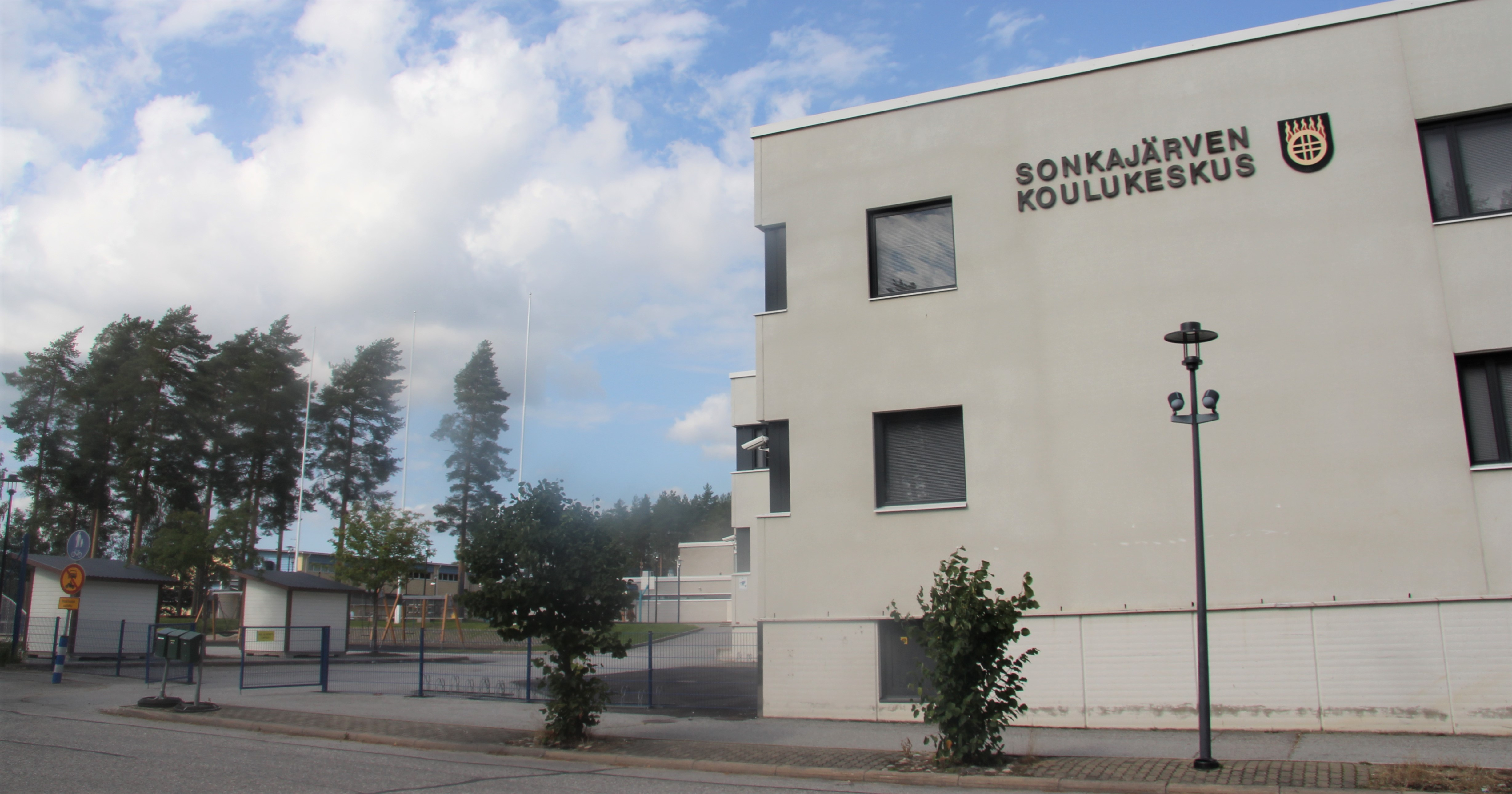 Sonkajärvi School Center in Sonkajärvi, Finland.